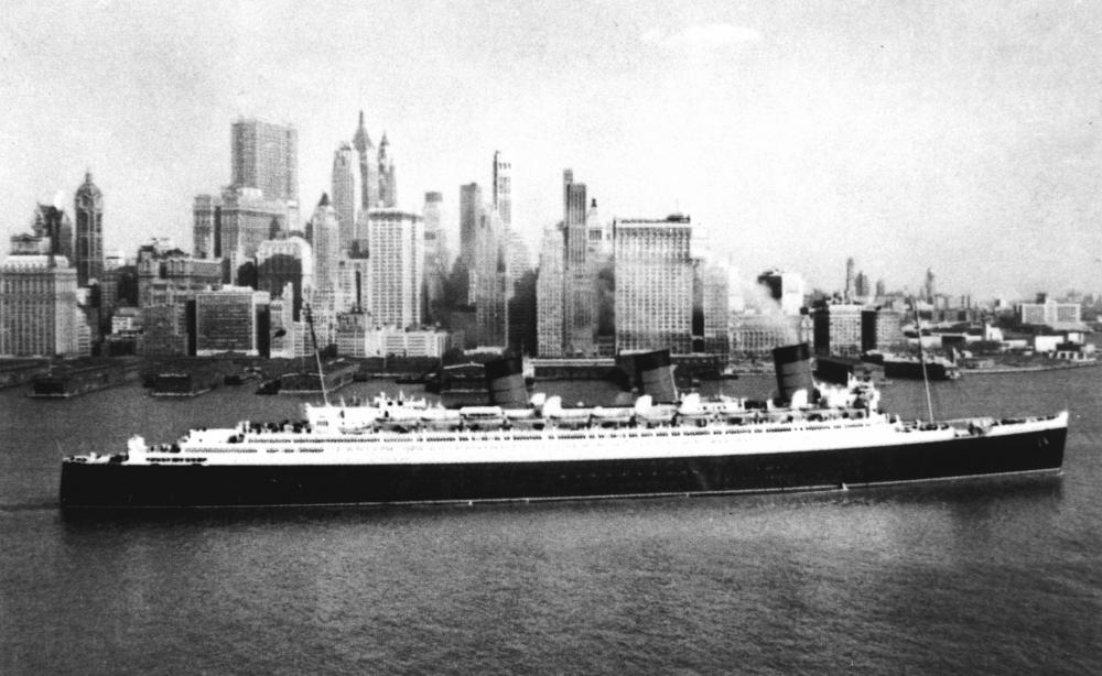 Queen Mary (ship) — New York City. 81,237 tons.